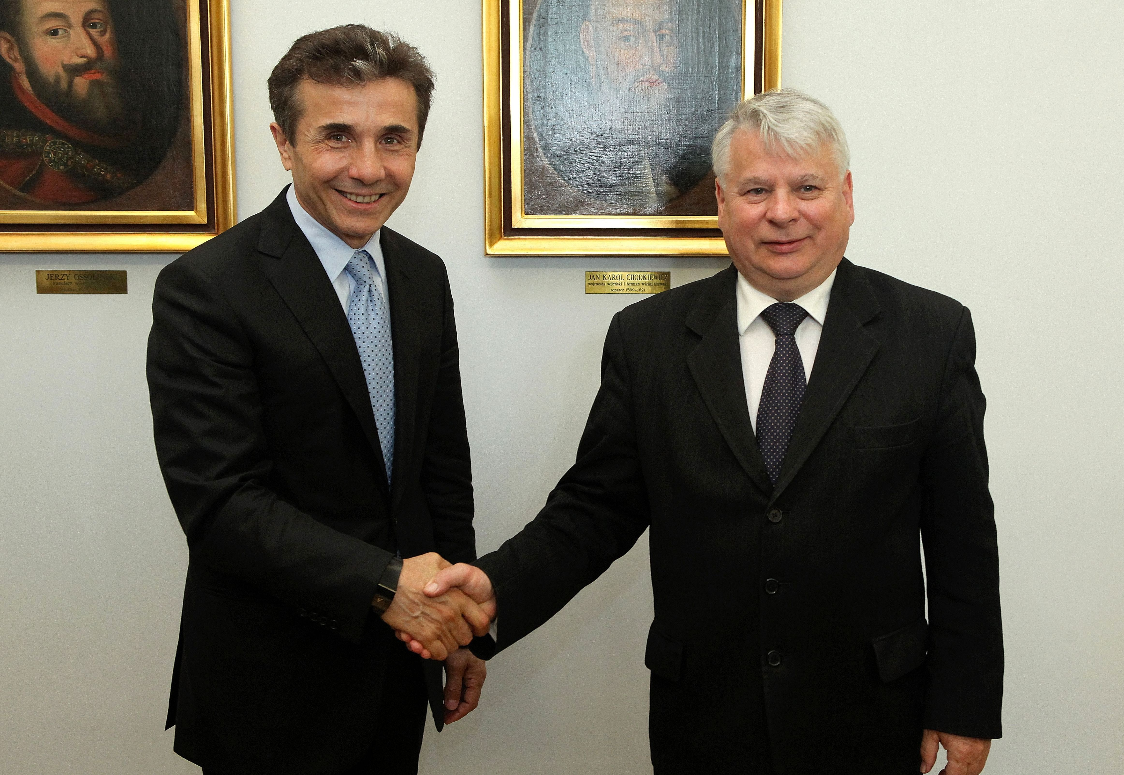 Prime Minister of Georgia Bidzina Ivanishvili abd Marshal Bogdan Borusewicz in the Polish Senate